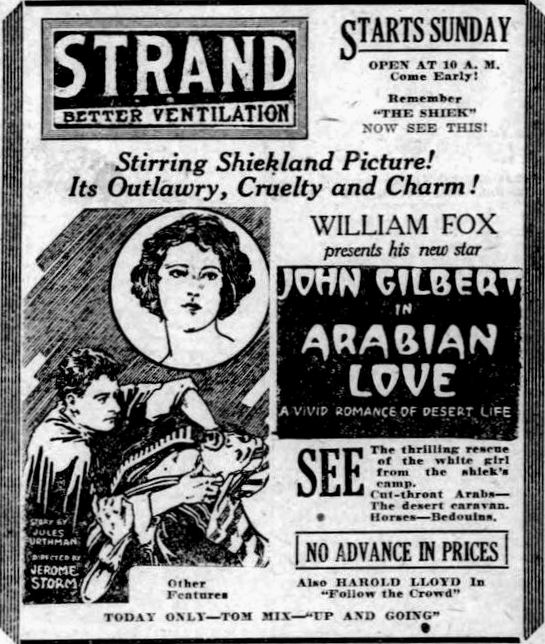 Newspaper advertisement for the American drama film Arabian Love (1922) with John Gilbert, on page 5 of the July 15, 1922 Duluth Herald.